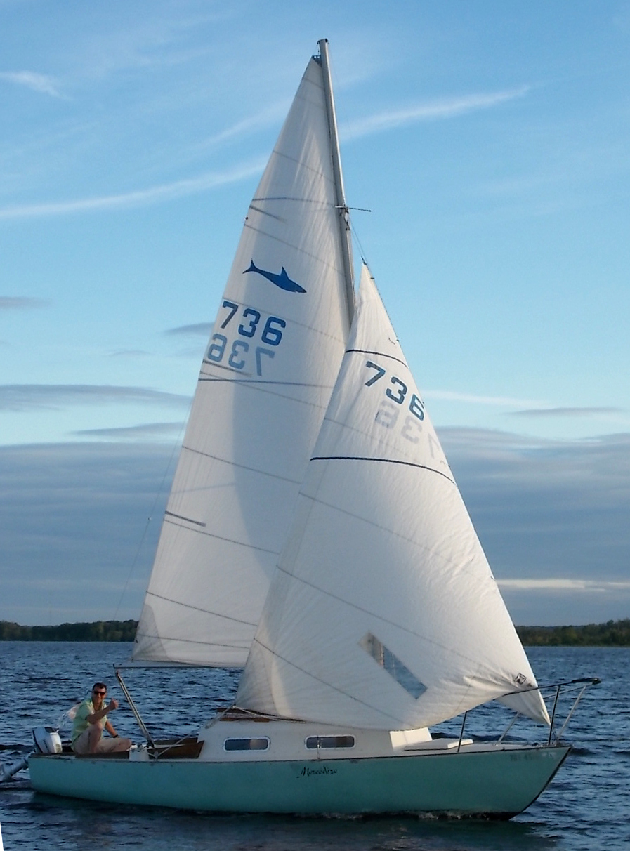 Shark 24 sailboat Mercedize on Lac Deschênes, part of the Ottawa River, Ottawa, Ontario, Canada